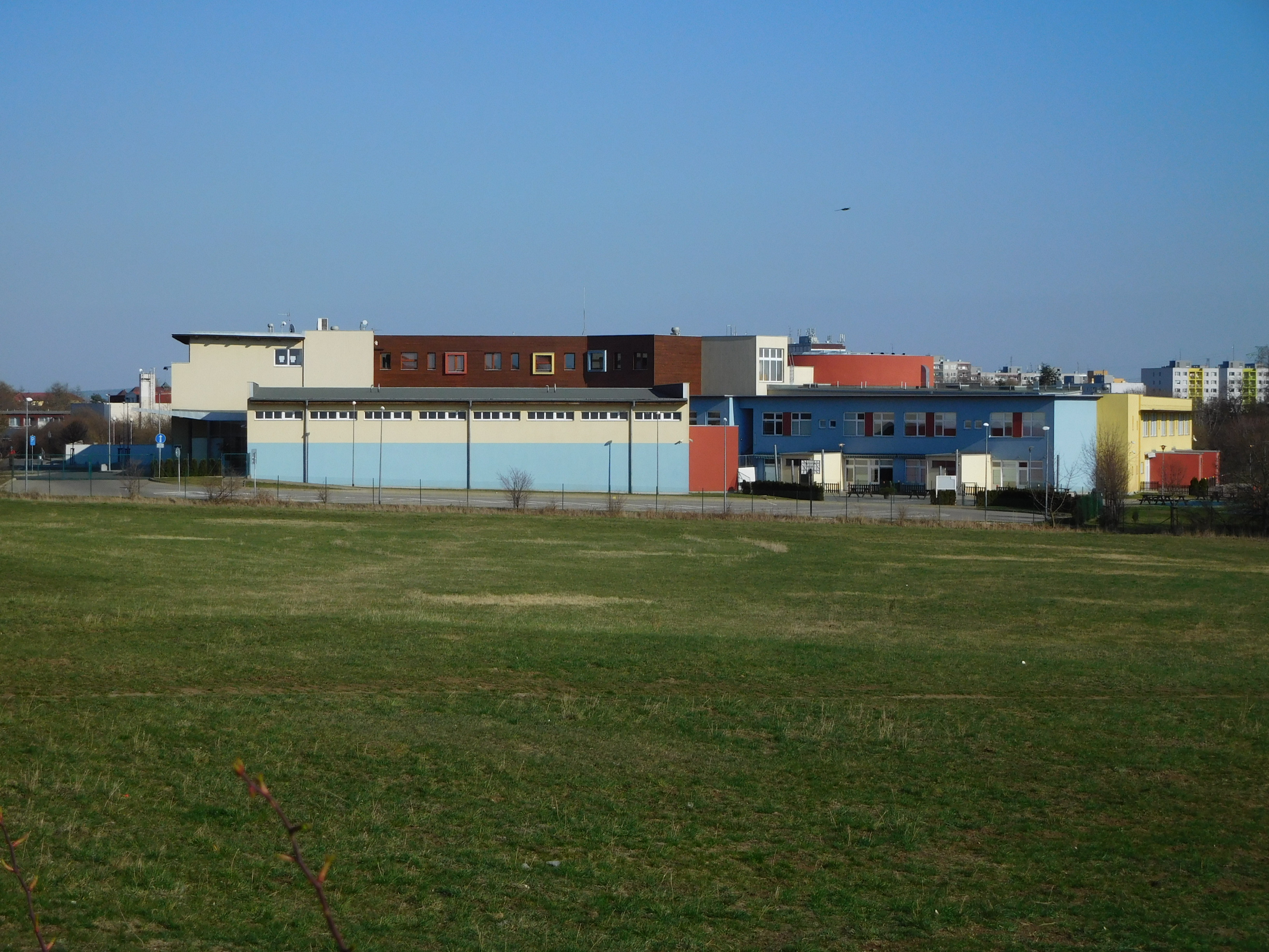 Praha - Libuš, Brunelova 12, Prague British International School